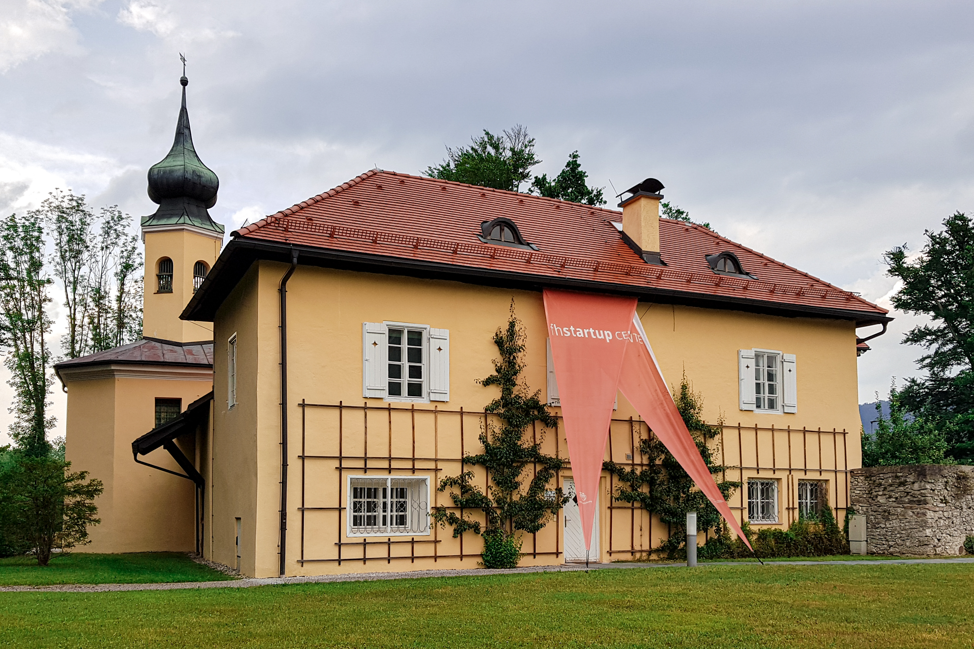 The Meierei, which belongs to the campus, is home to the FHStartup Center